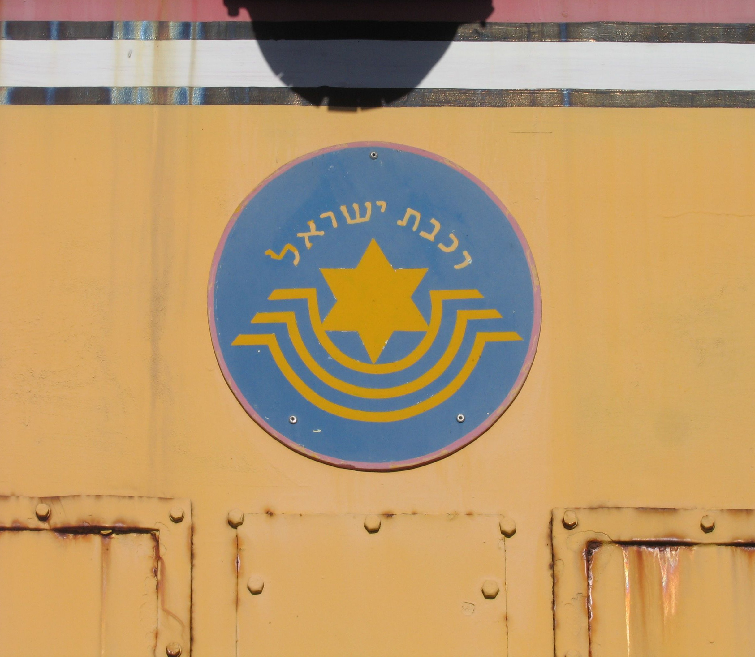 Israel Railway Museum, Haifa: Old Sign